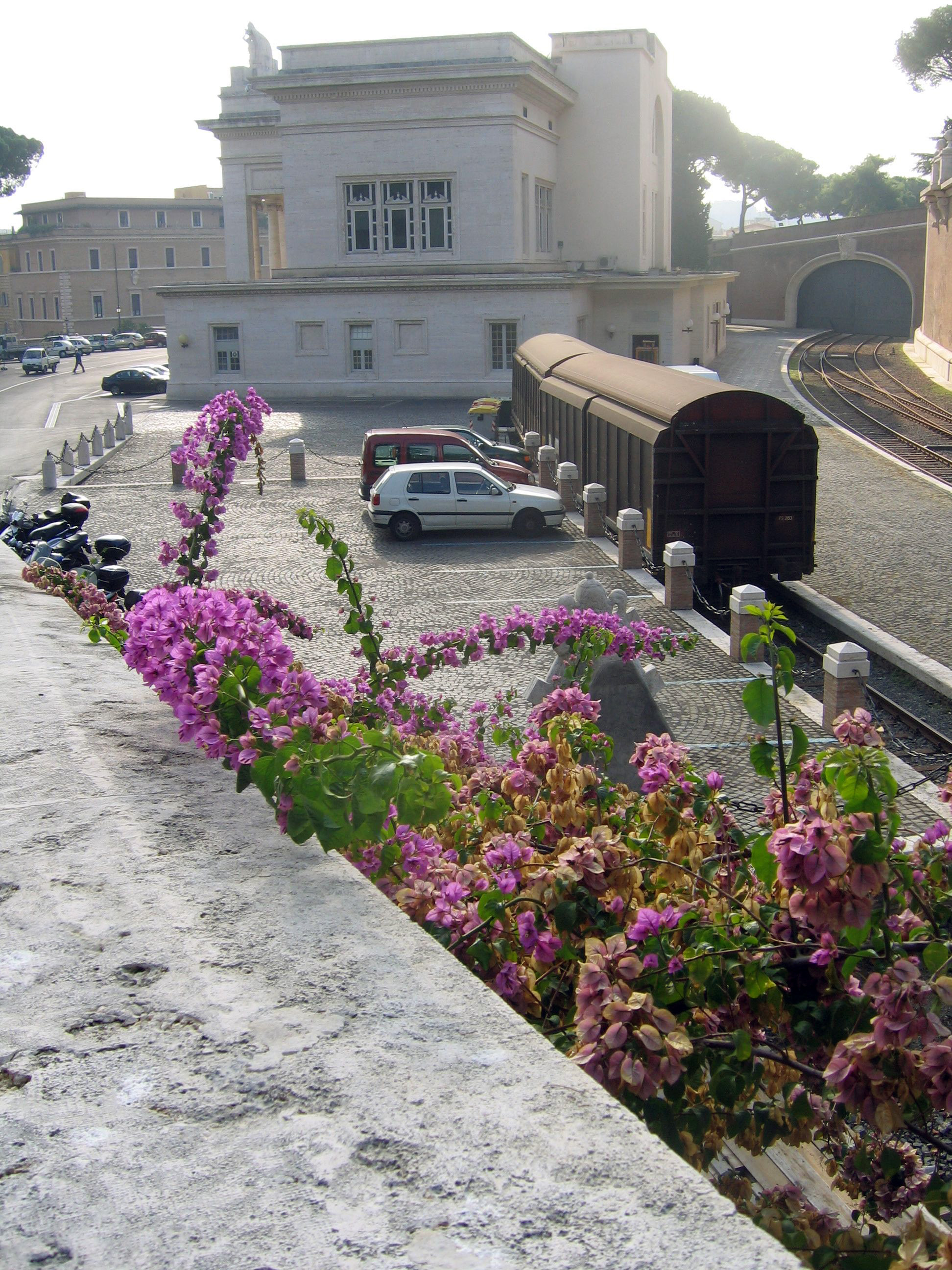 Railway station Vatican